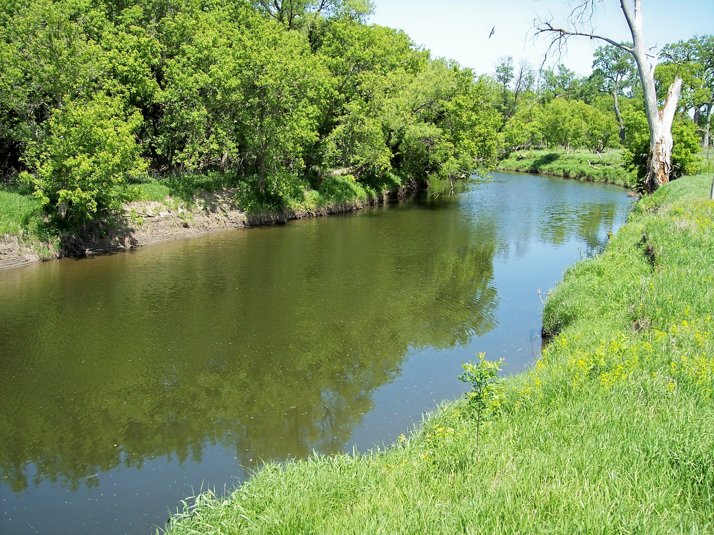 The Yellow Bank River as viewed downstream from County Road 15 in the Big Stone National Wildlife Refuge in Agassiz Township, Minnesota.